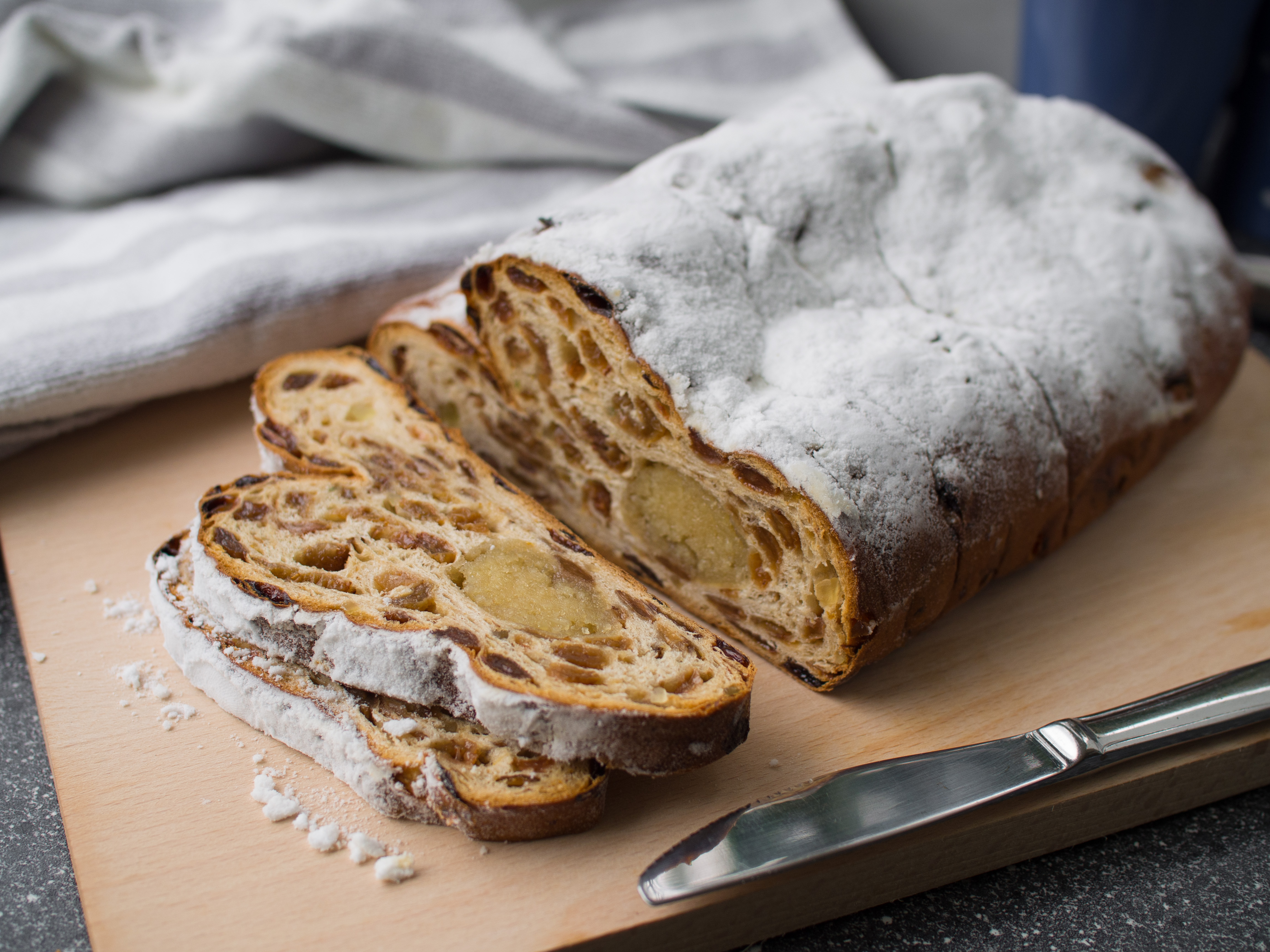 A kerststol is a Dutch sweet Christmas bread containing dried fruits and an almond paste filling. It is usually heavily dusted with powdered sugar. This kerststol came from bakery Rijkenberg in Haarlem.